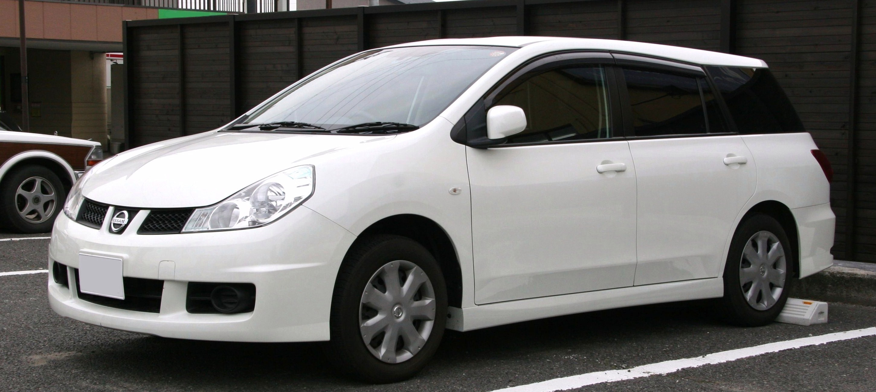 NISSAN WINGROAD